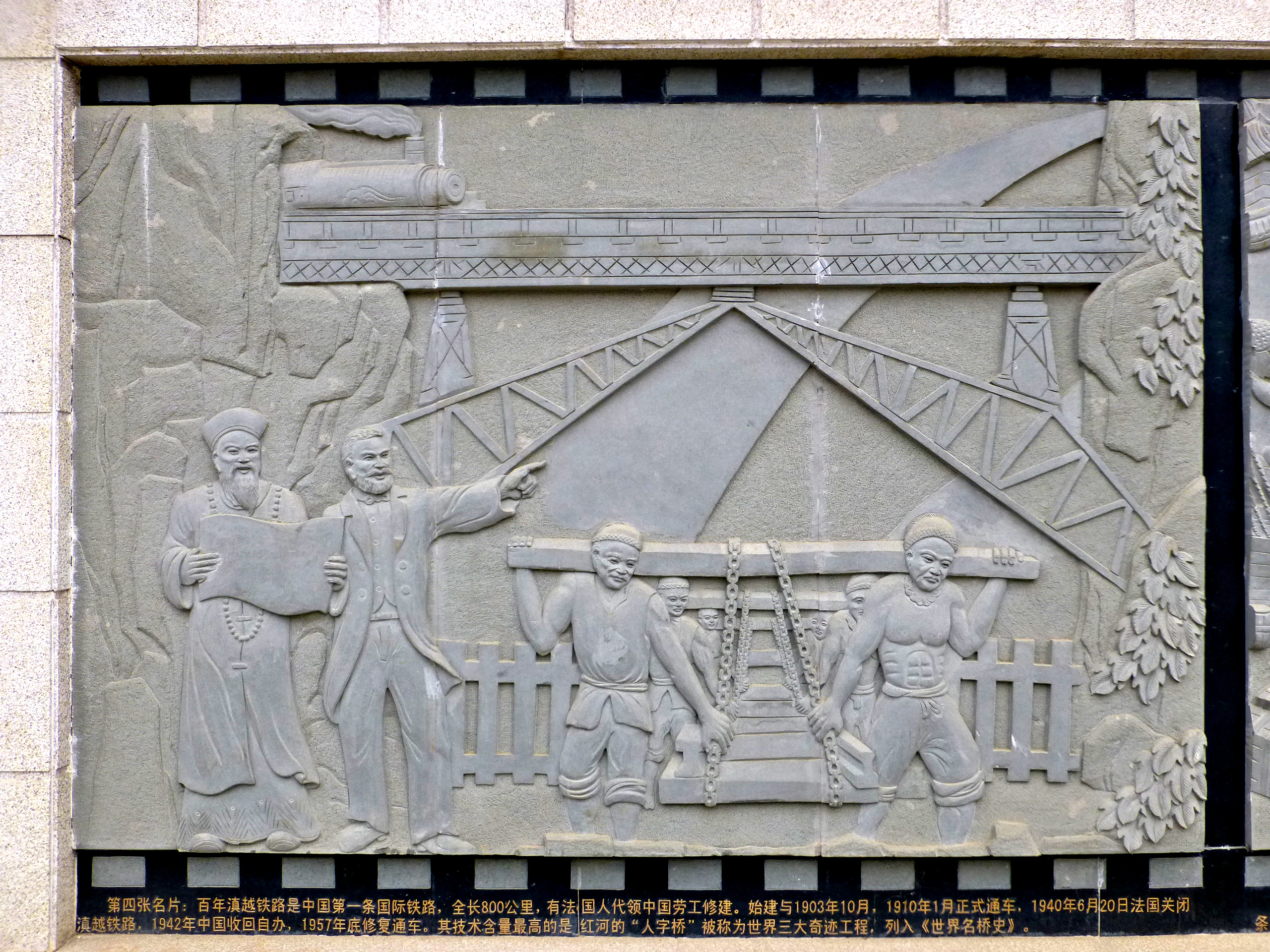 An artistic depiction of the construction of the narrow-gauge Yunnan-Vietnam Railway. Part of a relief decorating the square in front of the new Hekou North (Hekoubei) Railway Station, on the standard-gauge Kunming-Yuxi-Hekou Railway